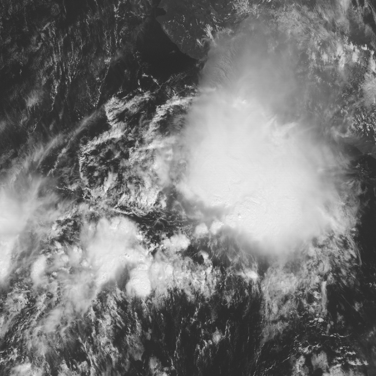 This image shows Tropical Storm Rosa in the Pacific Ocean at 1800 UTC on November 9, 2006. The storm's maximum sustained winds at the time were around 40 mph and the minimum central pressure was approximately 1002 mb.